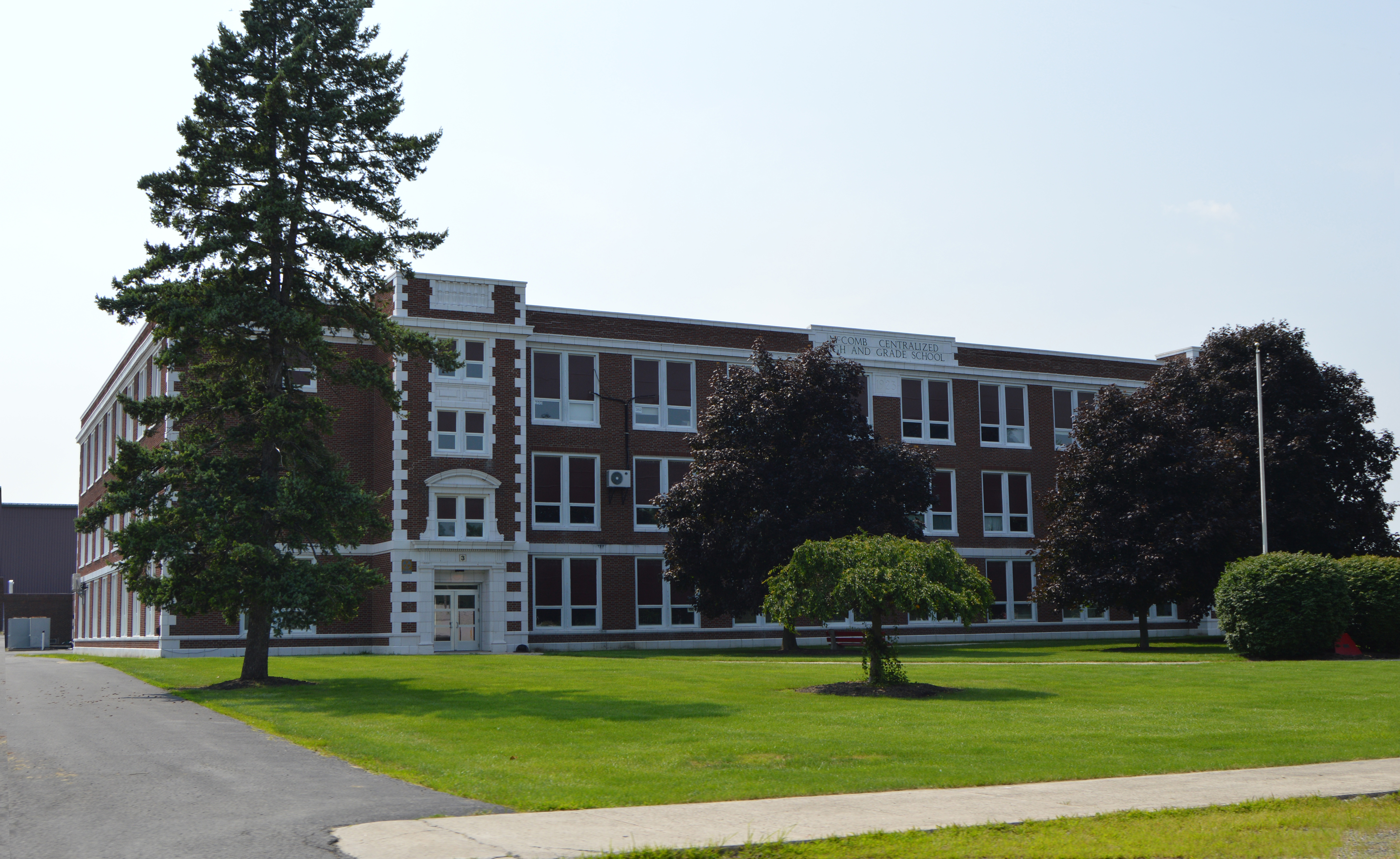 Front of McComb High School, located at 328 S. Todd Street in McComb, Ohio, United States. It was built in 1923.